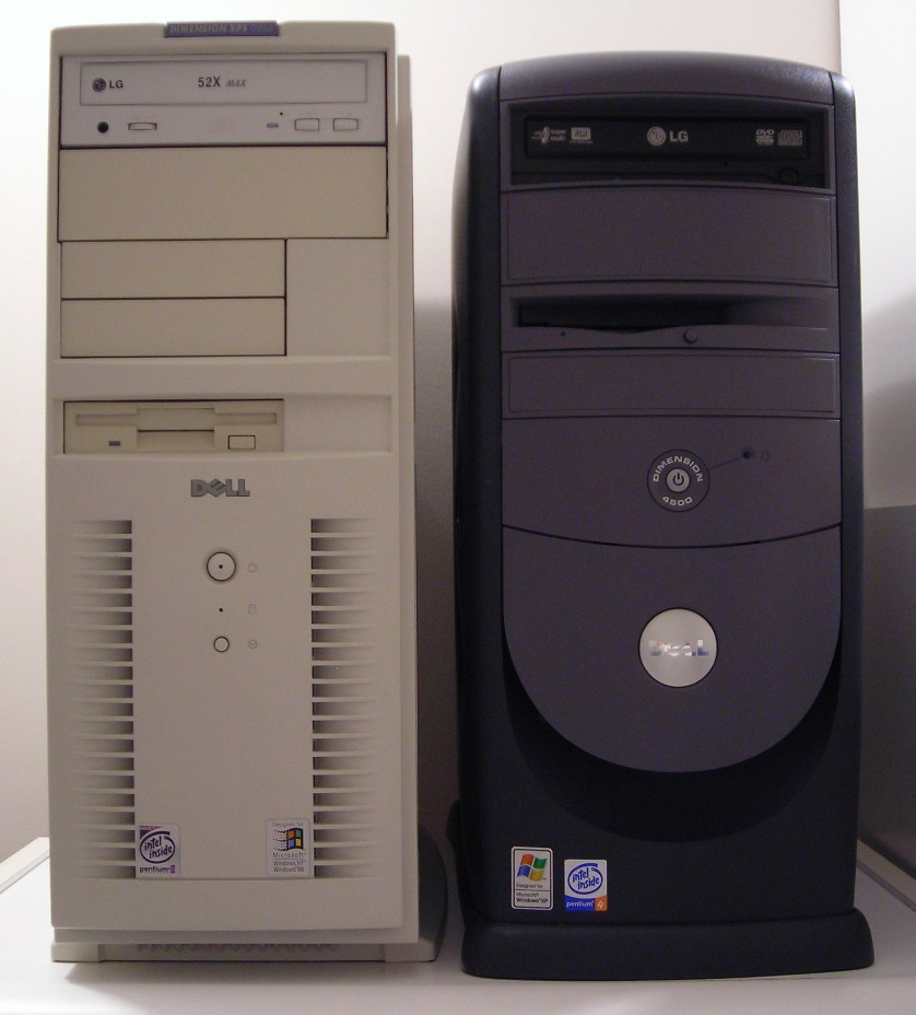 These are two previous models of the Dell Dimension series. Left: A 1998 model Dell Dimension XPS D266. This computer still contains its original parts, except for the CD-ROM drive. Right: A mid-range 2002 model Dell Dimension 4500. This still has its original parts, except for the DVD burner, which replaced the stock CD burner. The semi-circular plastic flap with the "Dell" label can be lifted up to expose extra USB sockets and a phone jack.